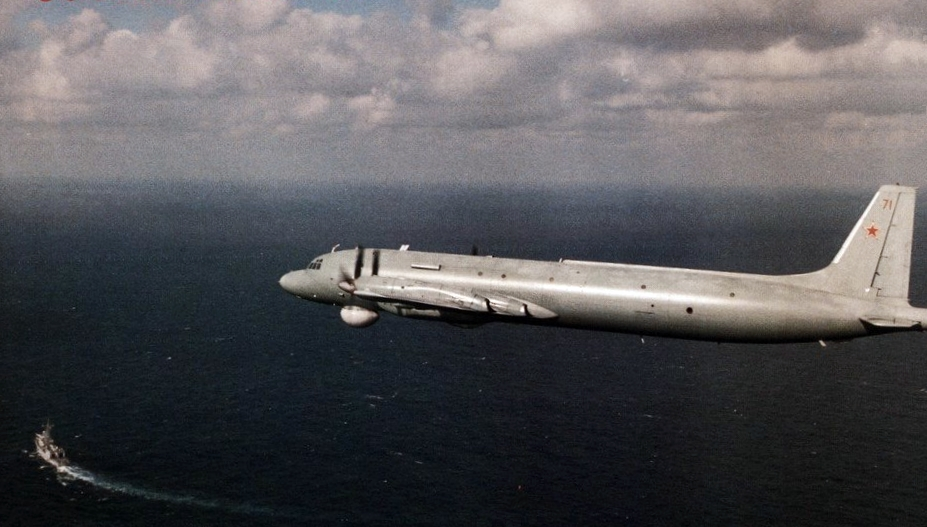 A Soviet Ilyushin Il-38 (NATO reporting code "May") over the Mediterranean Sea.